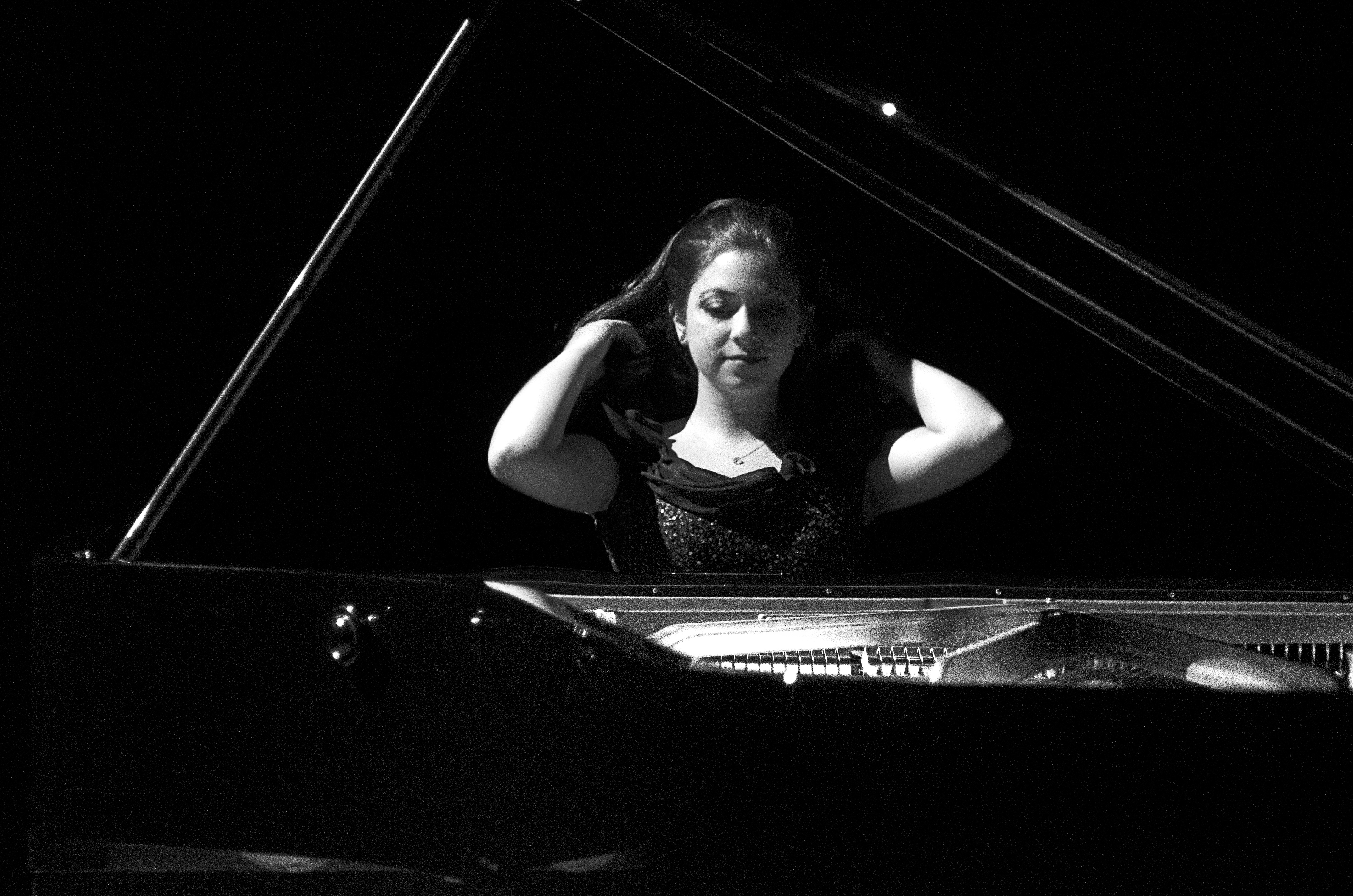 Lara Melda, Mehmet Çağlarer Photography